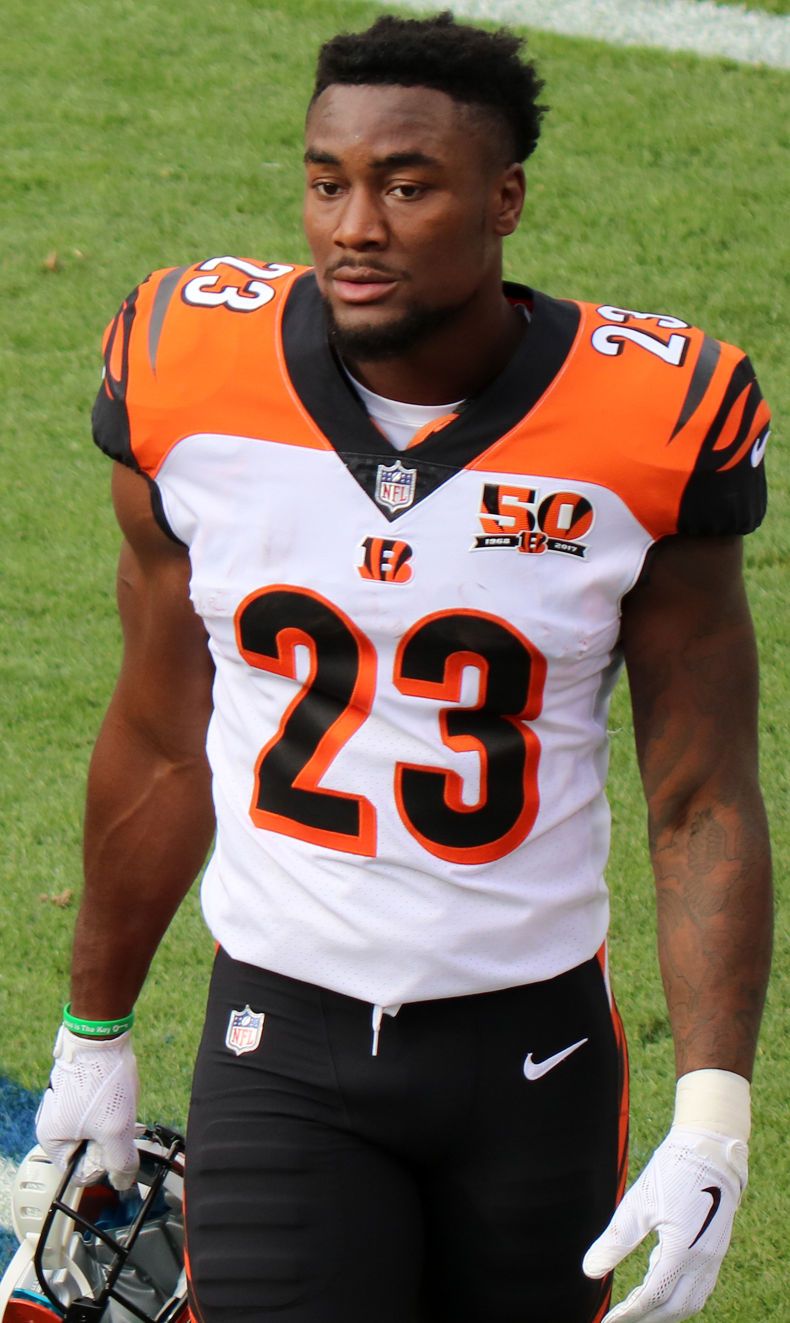 Brian Hill, a National Football League player.